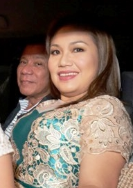 Cielito Avanceña (right, common-law wife of President Rodrigo Duterte (left)